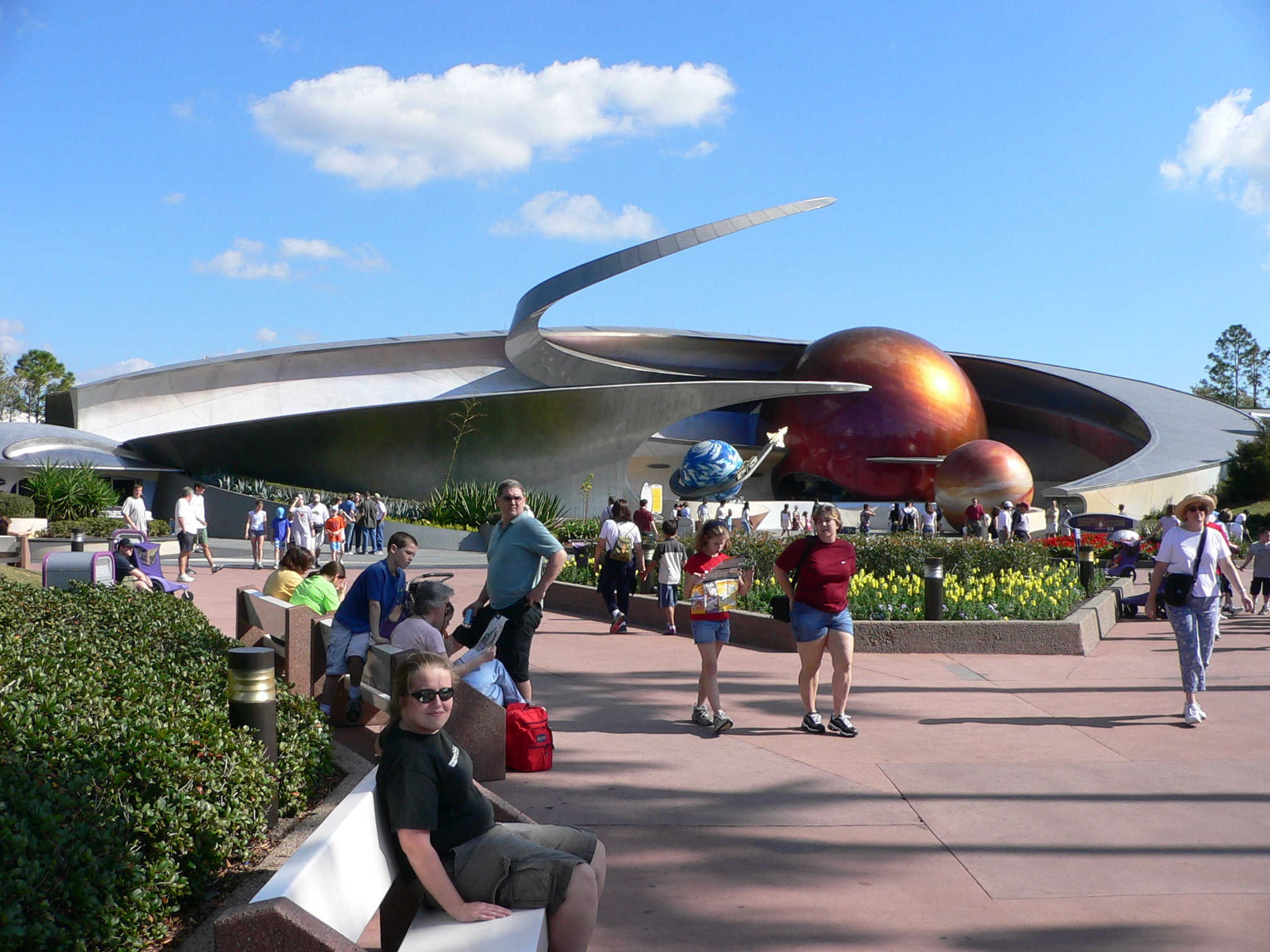 Picture from the ride Mission : Space at Walt Disney World. Taken by user:Raul654 in January, 2005.